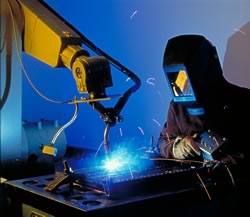 Materials research engineer James Filla monitors a welding robot as part of a collaborative project with NIST manufacturing automation experts. NIST holds several patents in the areas of real-time sensing and control of welding processes. Through a continuing series of cooperative research and development agreements with automotive and heavy equipment manufacturers, NIST has helped several companies upgrade their sensors for welding quality control. The reseachers have already demonstrated the feasibility of real-time quality control under factory conditions for longer welds (1 minute and longer) and are now working on applying the technology to shorter welds where transient conditions (due to starting and stopping) are more important. Copyright 1997 Geoffrey Wheeler Photography This image may be used for any NIST purpose. Correct photo credit must be provided. Other organizations may use this image without charge for editorial articles that mention NIST in accompanying text or a caption. Correct photo credit must be provided. "Stock art" use requires permission and may require payment to the photographer. To receive a high resolution version send an email with the image AV number (97MSEL001) and title to . Disclaimer: Any mention of commercial products within NIST web pages is for information only; it does not imply recommendation or endorsement by NIST. Use of NIST Information: These World Wide Web pages are provided as a public service by the National Institute of Standards and Technology (NIST). With the exception of material marked as copyrighted, information presented on these pages is considered public information and may be distributed or copied. Use of appropriate byline/photo/image credits is requested.